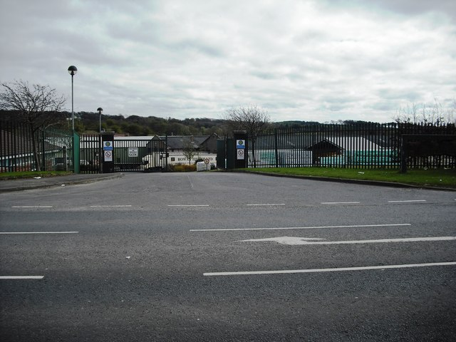 Timber supplier's yard Entrance to yard of local firm who have expanded to become one of the leaders in supplying timber in Scotland.